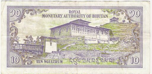 From a travel.